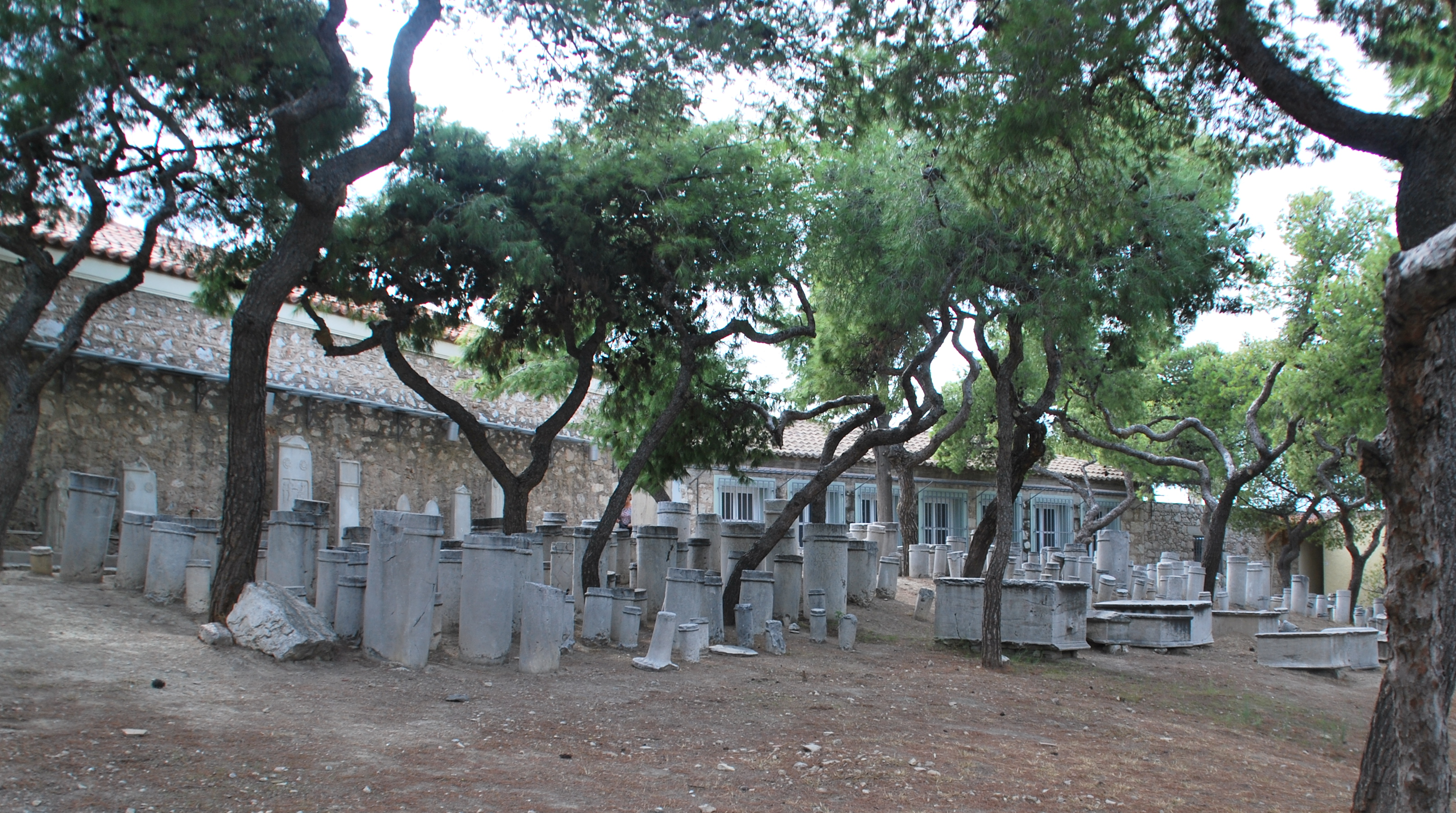 Kerameikos, der größte und wichtigste der Friedhöfe des antiken Athens.